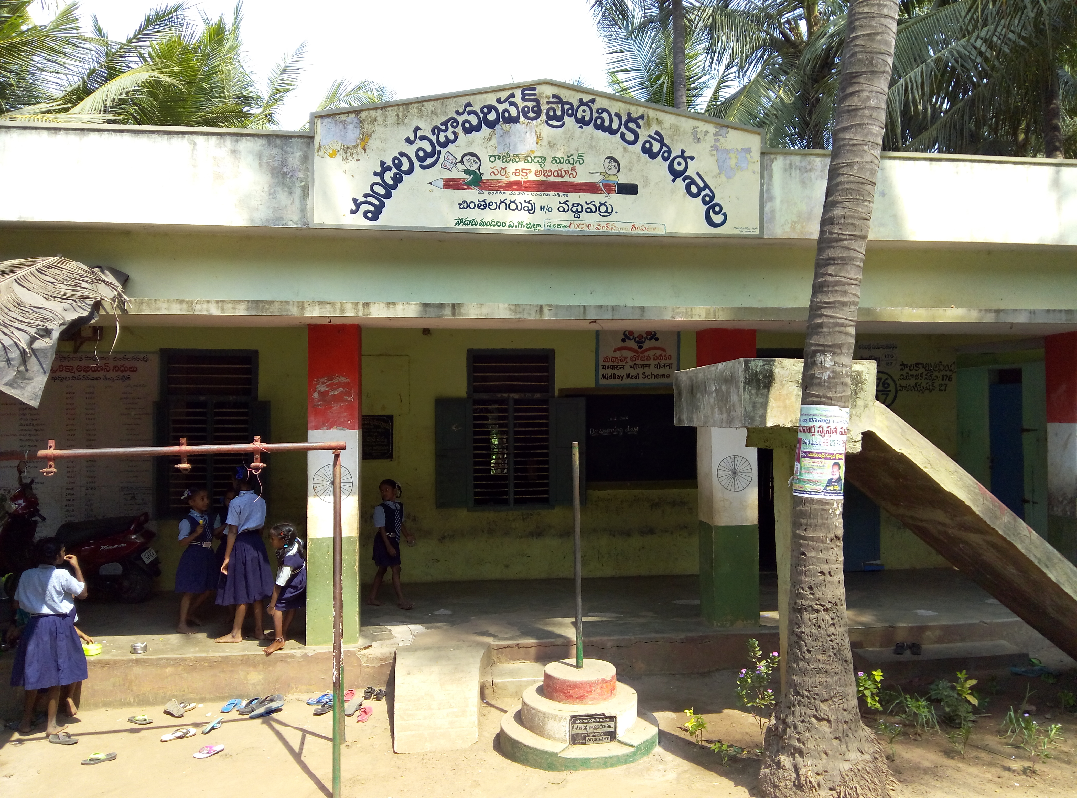 Chinatala garuvu village of Vaddiparru, Poduru Mandalam